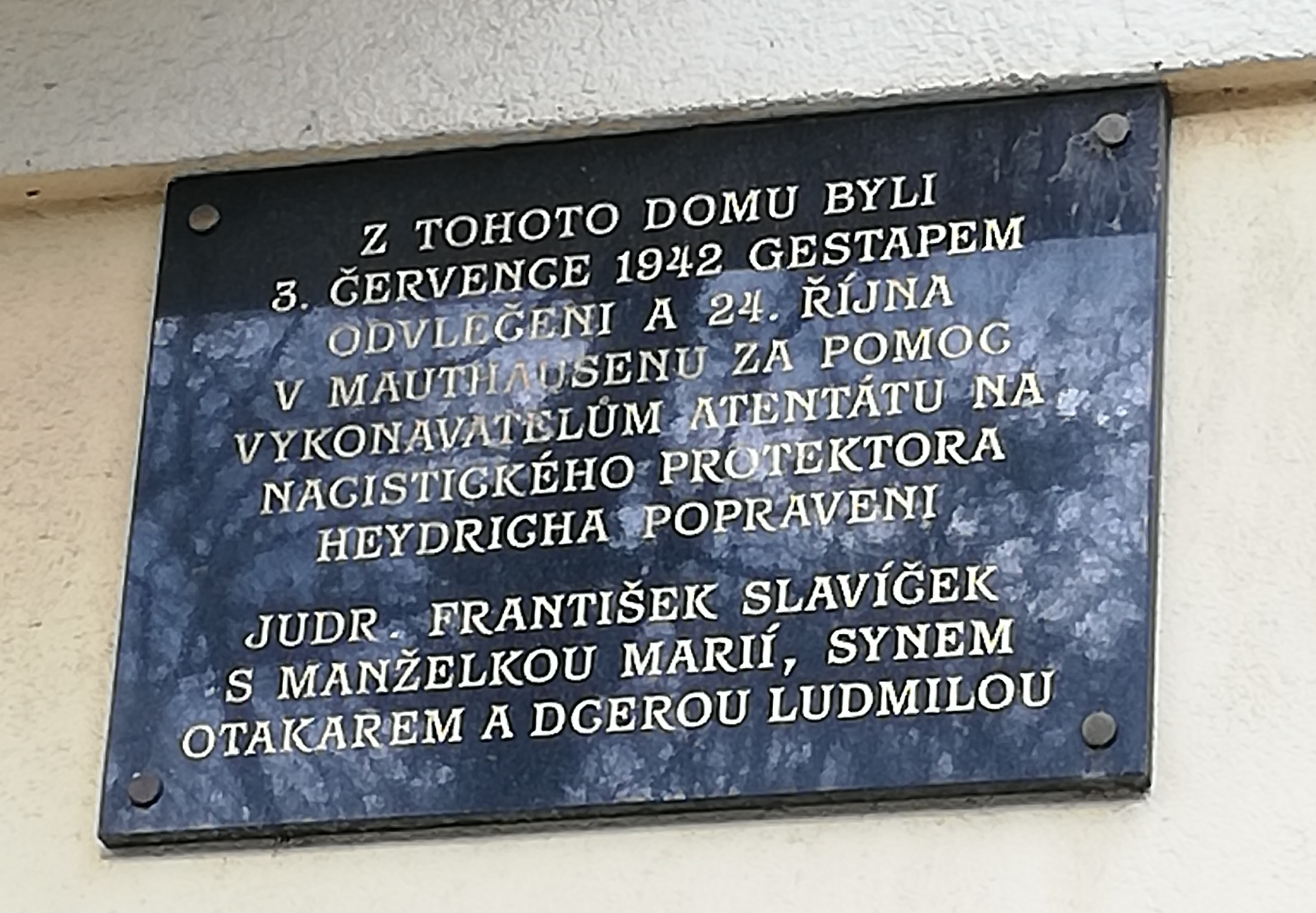 On the House No. 1811 Kováků Street 12 Prague 5 - Smíchov (Czech Republic) is a commemorative plaque commemorating JUDr. František Slavíček, Marie Slavíčková, Otakar Slavíček and Ludmila Slavíčková with the following text: In this house was captured by gestapo on 3 July 1942 JUDr. František Slavíček, his wife Marie and both two children: Otakar and Ludmila. For helping of the parachuters to kill Reinhard Heydrich were all family executed on 24 october 1942 in concentration camp Mauthausen. JUDr. František Slavíček (* 1890 - 1942) was the director of the General Sickness Insurance Company in Prague during the Protectorate. He provided the necessary documents to the members of the resistance. He provided false documents to a number of resistance fighters and some paratroopers who were preparing the assassination of the deputy Reich Protector Reinhard Heydrich. Slavíček was a “supplier” of blank work books (so-called “Arbeitsbuch”) intended primarily for people moving illegally. In addition, he distributed "food stamps" for these resistance fighters, and mainly he supplied the food itself: meat, chickens, hens, and flour which he purchased from the rural peasants and butchers outside Prague.